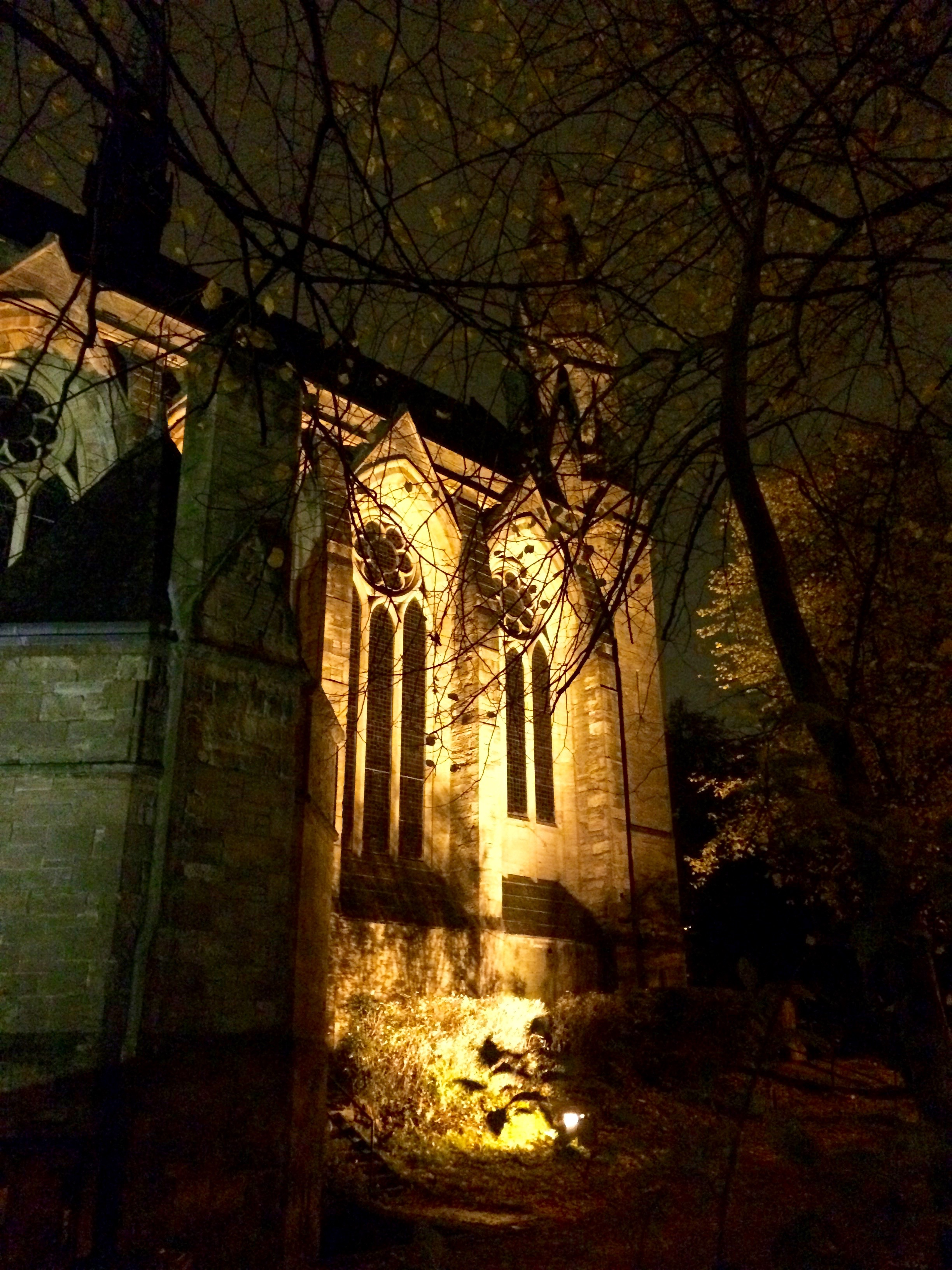 Kelvinside Hillhead Parish Church, Glasgow Wikidata has entry Q6386775 with data related to this item.